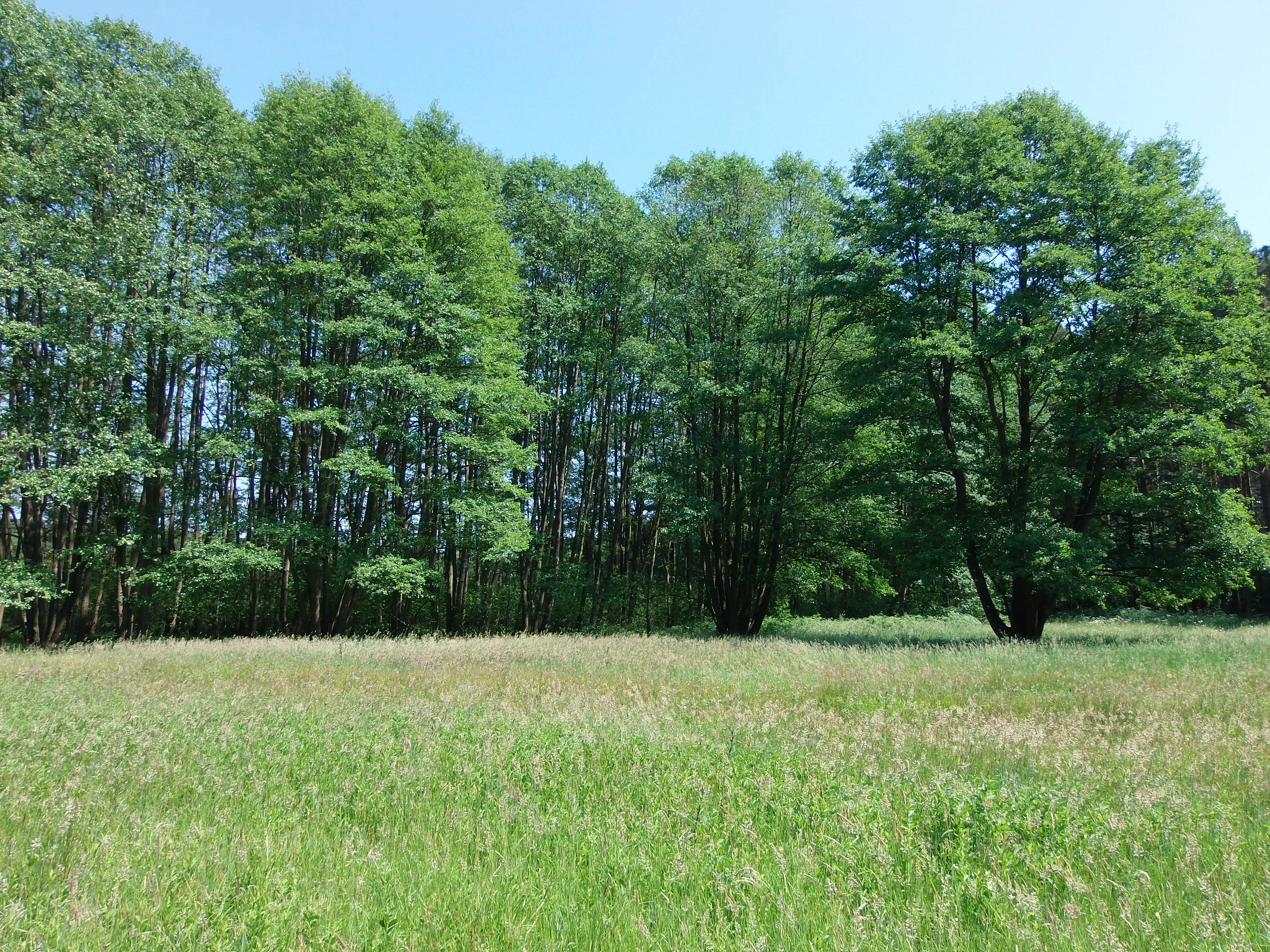 Nature reserve Kamenný rybník - meadow